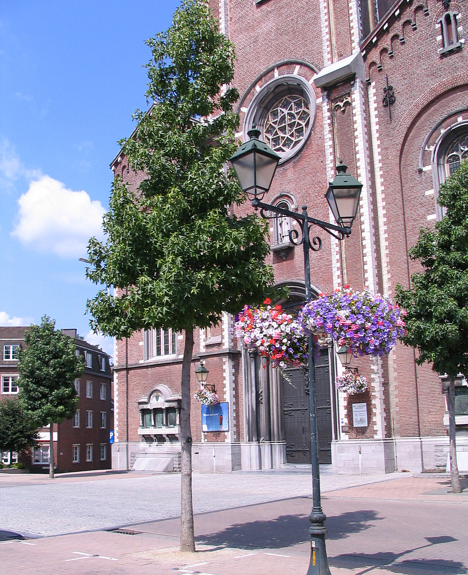 Liquidambar styraciflua habitus, B 9230 Wetteren